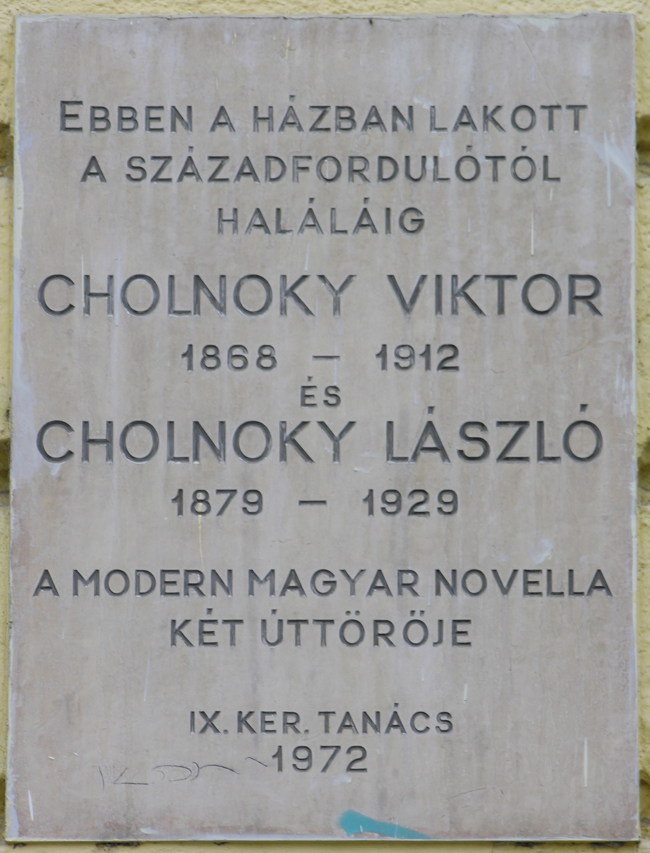 Commemorative plaque of Viktor Cholnoky and the writer László Cholnoky in Budapest District IX, Ráday Street No 54